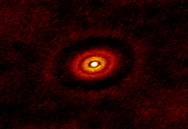 Despite the wrong filename this image shows CI Tauri and the disk around the young star. I used images from an ALMA proposal, connected to this publication: 2018ApJ...866L...6C. I am not familiar with ALMA data, so I am not able to tell further details about the data.As pointed out in the publication the disk shows three gaps. A version by professional astronomers can be found here. This work makes use of the following ALMA data: ADS/JAO.ALMA#2016.1.01370.S. ALMA is a partnership of ESO (representing its member states), NSF (USA) and NINS (Japan), together with NRC (Canada), MOST and ASIAA (Taiwan), and KASI (Republic of Korea), in cooperation with the Republic of Chile. The Joint ALMA Observatory is operated by ESO, AUI/NRAO and NAOJ.